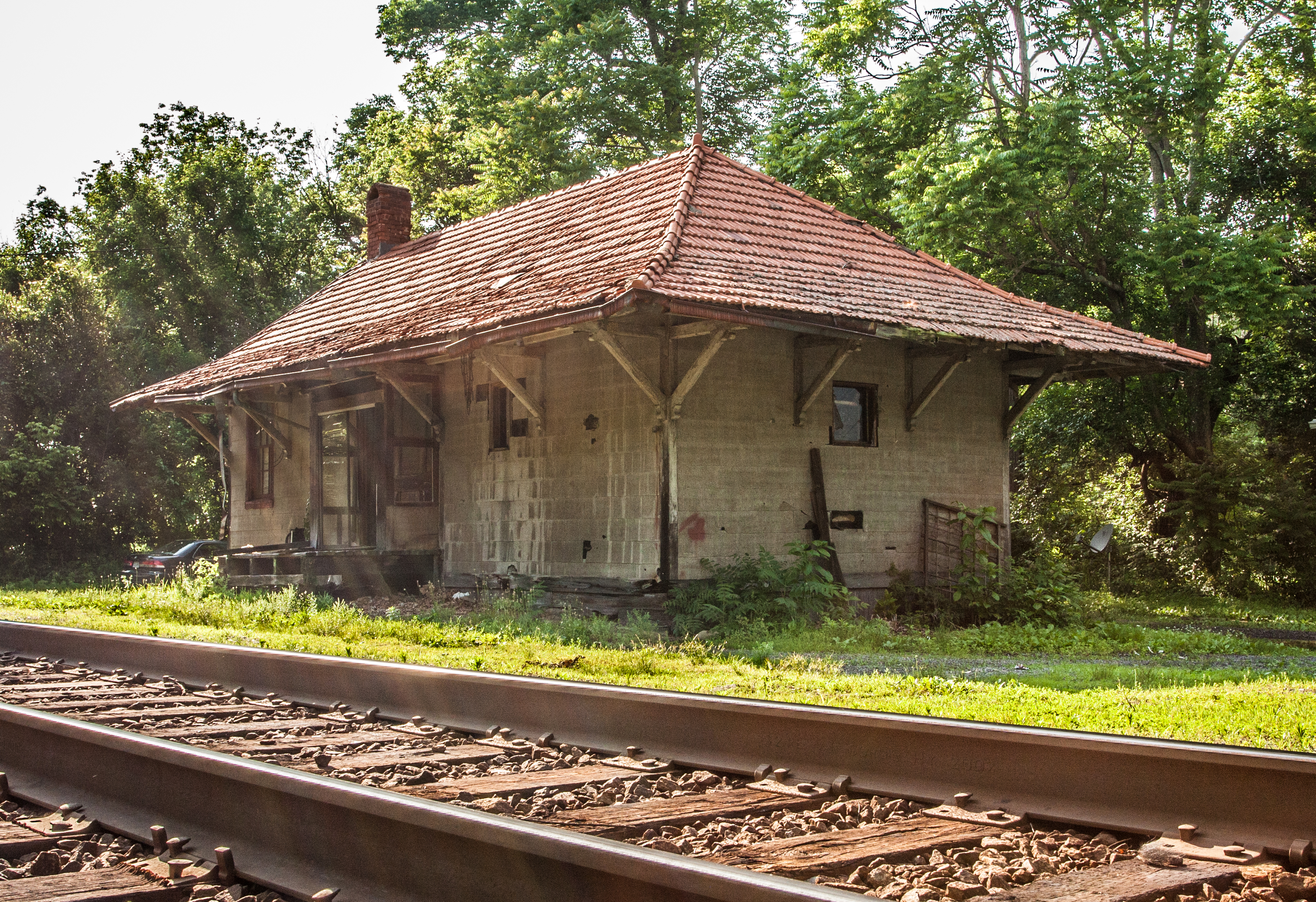 Abandoned railway depot in Markham Historic District, Markham, Virginia, United States